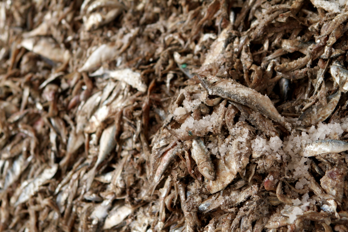 Salted anchovies get delivered to a fish sauce factory on Phu Quoc Island in Vietnam.